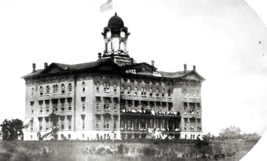 Old Main, Illinois State (Normal) University, Normal, Illinois. Photographed in 1860.